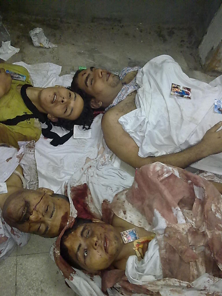 Martyrs @ the Coptic Hospital Morgue